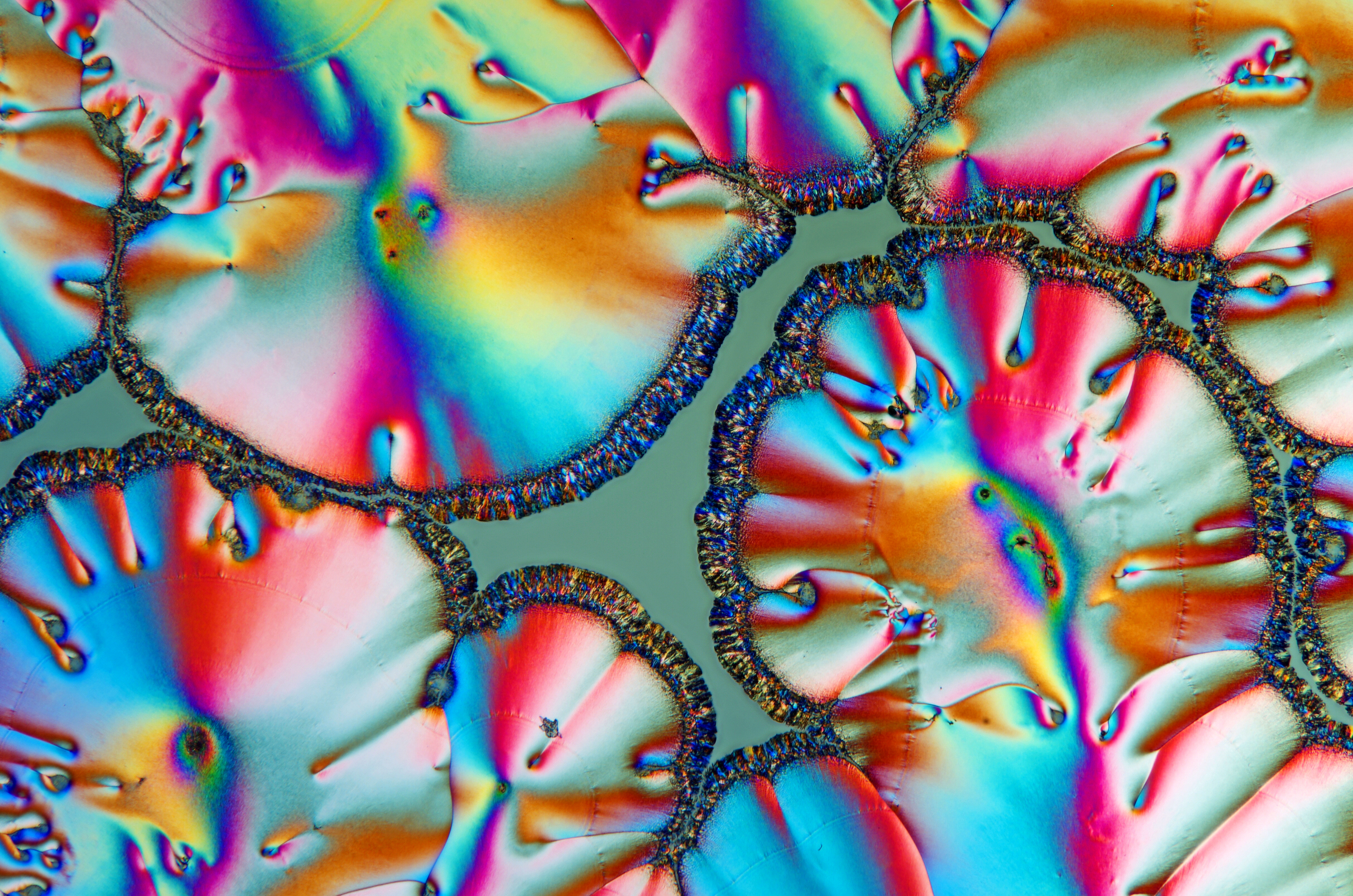 Ascorbic acid crystals (vitamin C) photographed with light microscope using special technique of the illumination: polarized light,. Magnification 100X